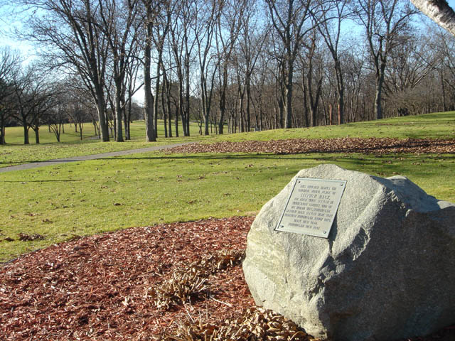 Stephen Mack, Jr. marker, located 50 yards northwest of clubhouse for golf course at Macktown forest preserve in Rockton, Illinois